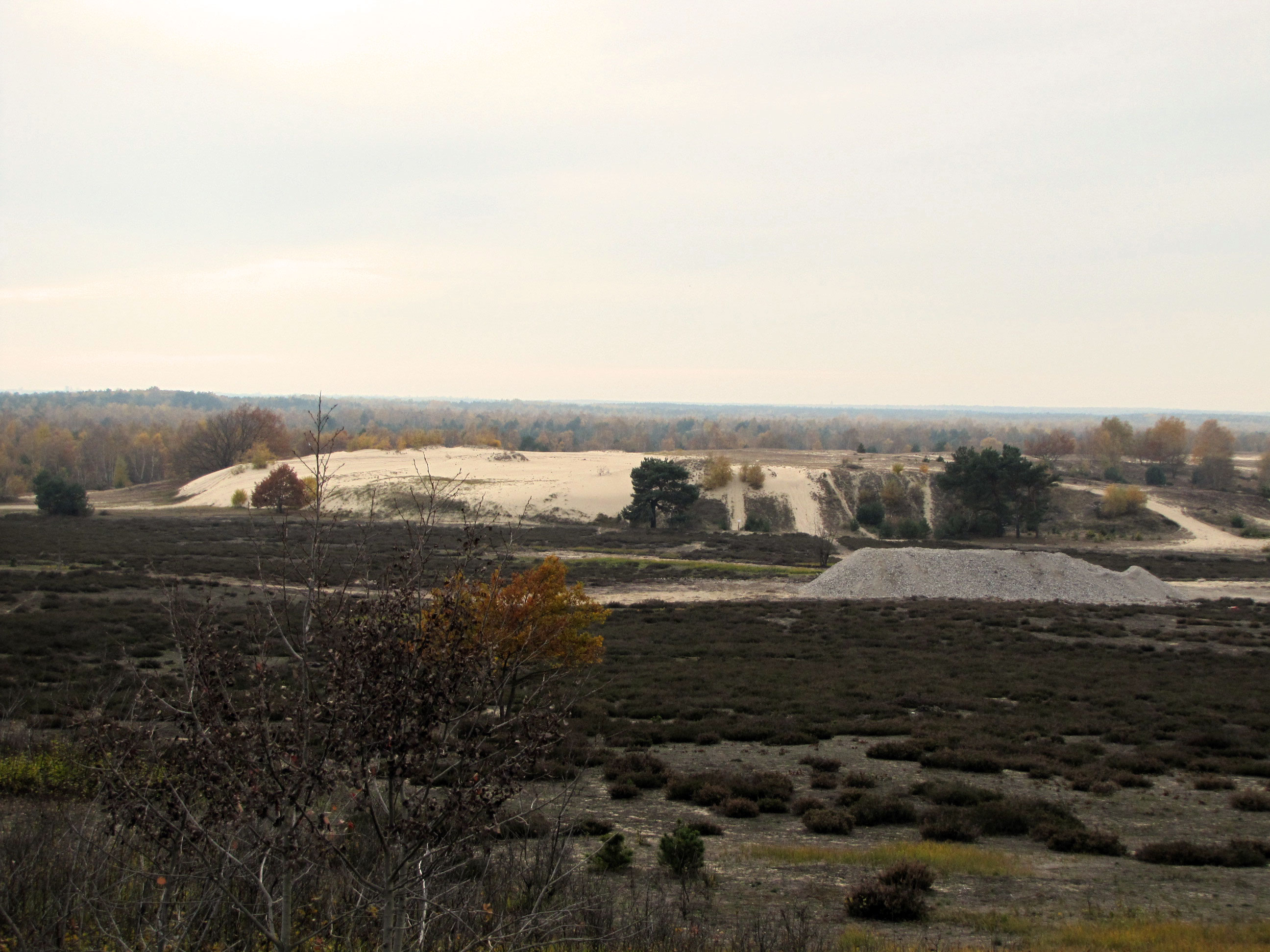 Dune in a nature reserve in Brandenburg (Germany).